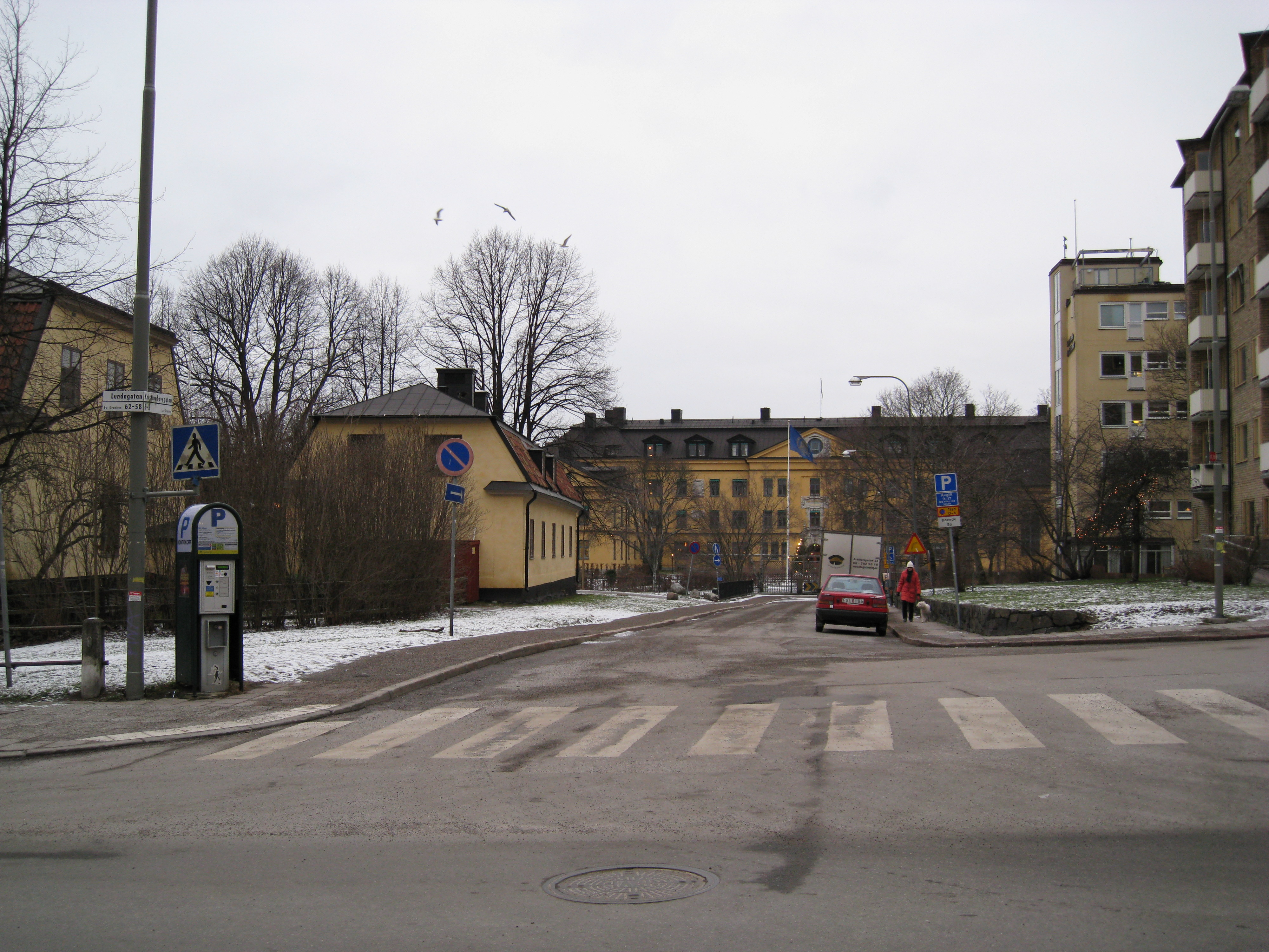 Kristinehovsgatan in Stockholm, Sweden